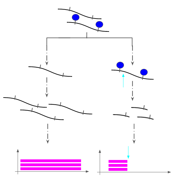 ICE-based and CMC-based detection of inosine and pseudouridine, respectively, are both predicated on biochemical reactions that produce a base that causes the reverse transcriptase enzyme to stall, producing a truncated cDNA molecule.